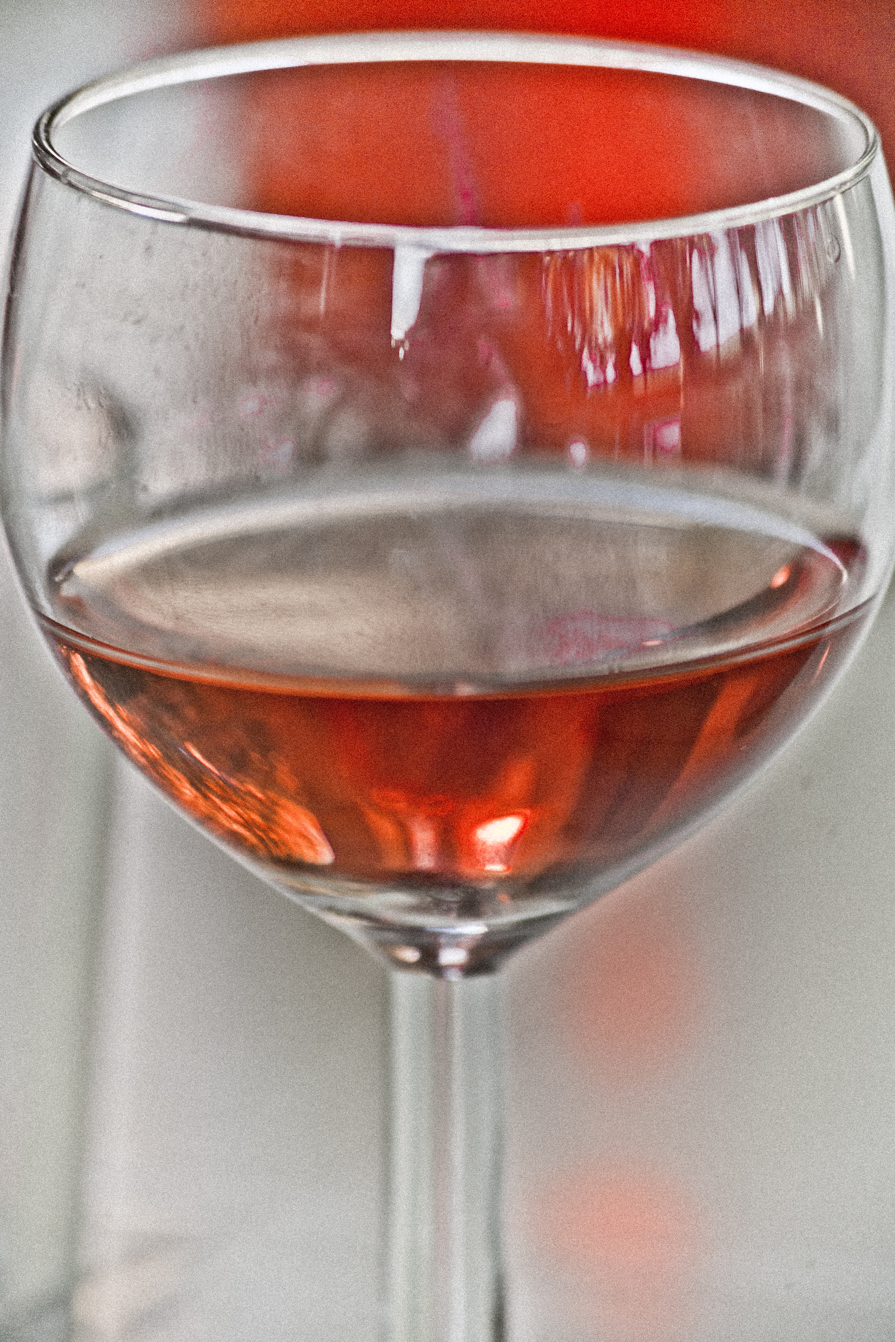 Ventenac (36 of 51)